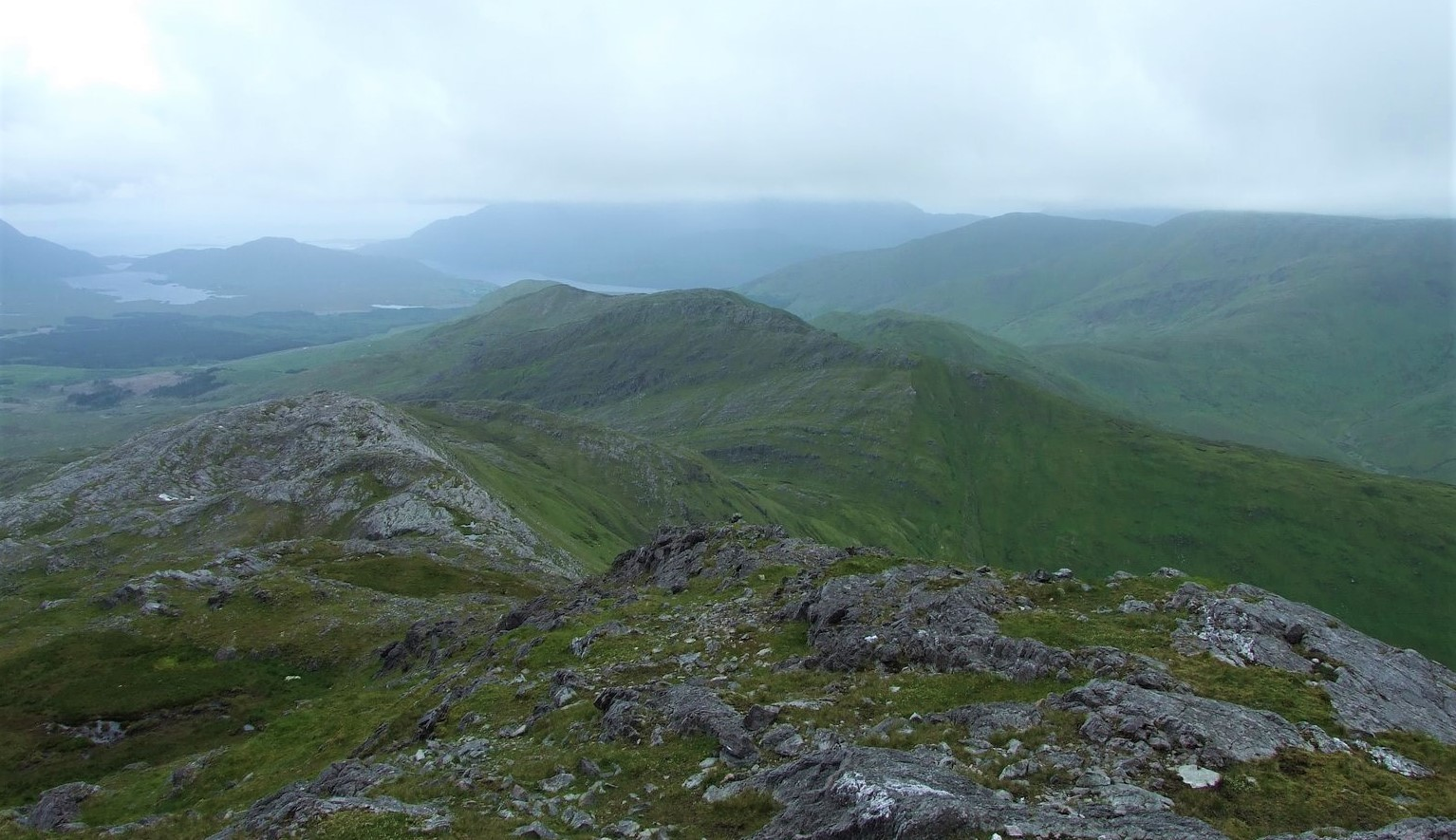 View north to Leenaun Hill from close to summit of Letterbreckaun, Maumturks, Ireland